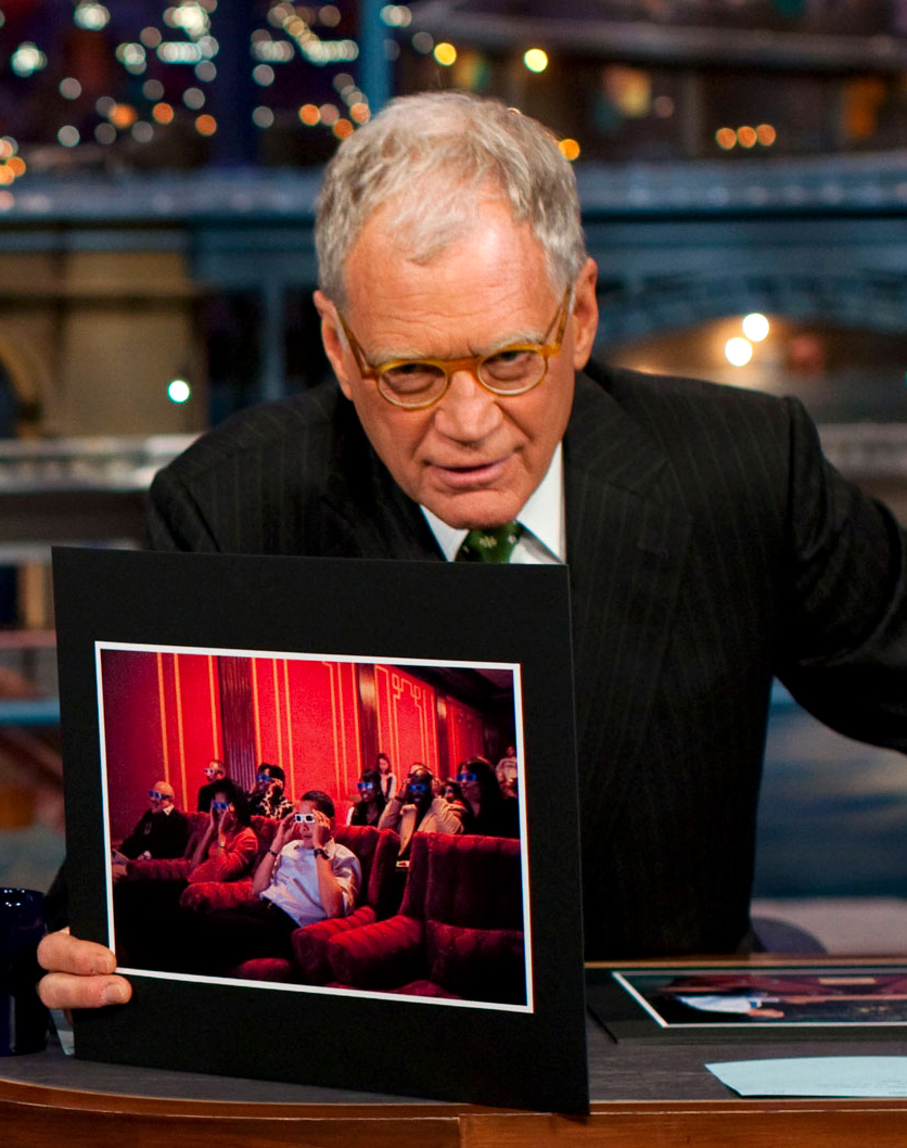 David Letterman hosting United States President Barack Obama on the Late Show with David Letterman on 21 September 2009. Letterman is showing a photograph of the President and his wife wearing 3-D glasses while watching the Super Bowl in the family theater of the White House.